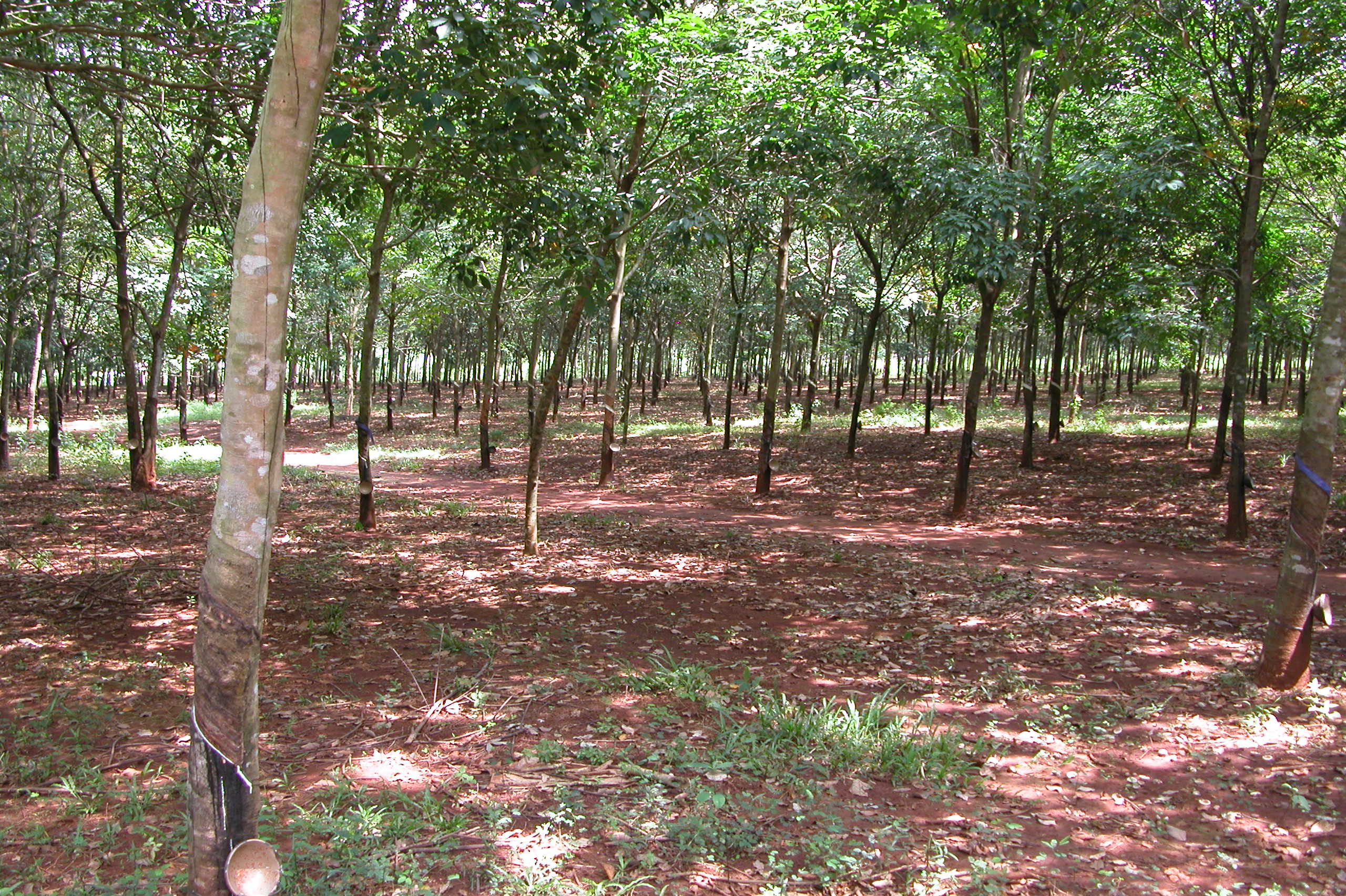 This is a view of the rubber plantation where the Battle of Long Tan took place. This is the view from the Memorial Cross looking north east. The photo was taken in November 2005.